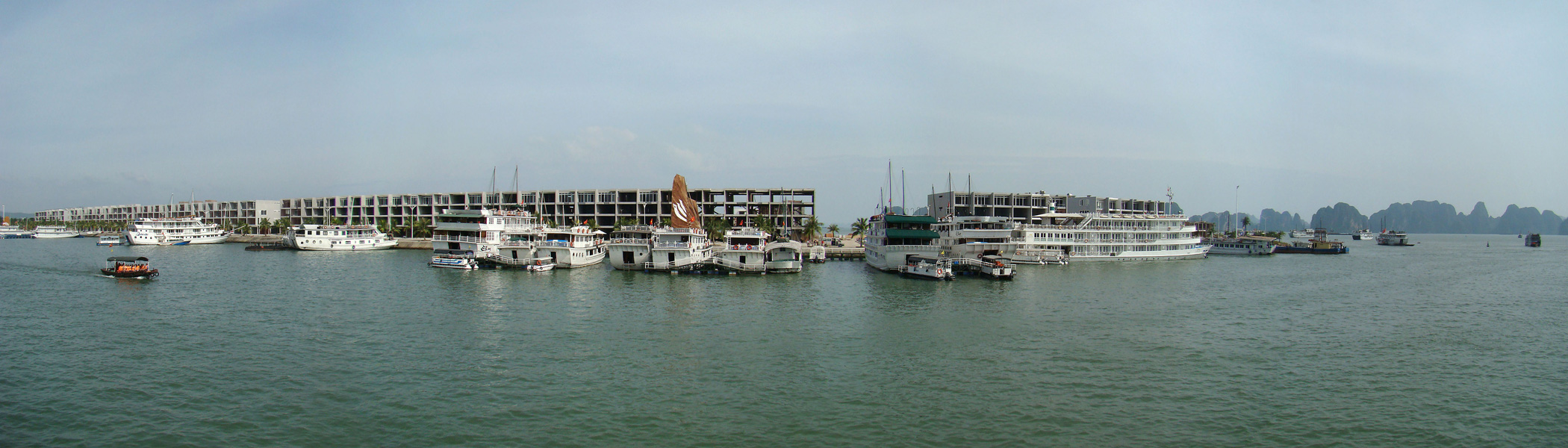 The new harbour reserved for tourist cruise ships, Ha Long, Vietnam.